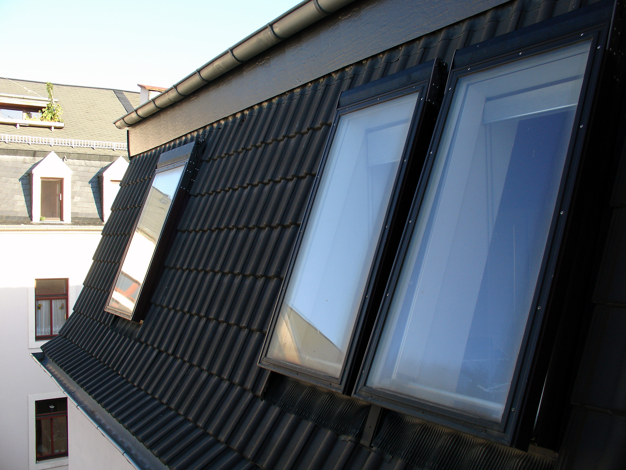 Roof windows